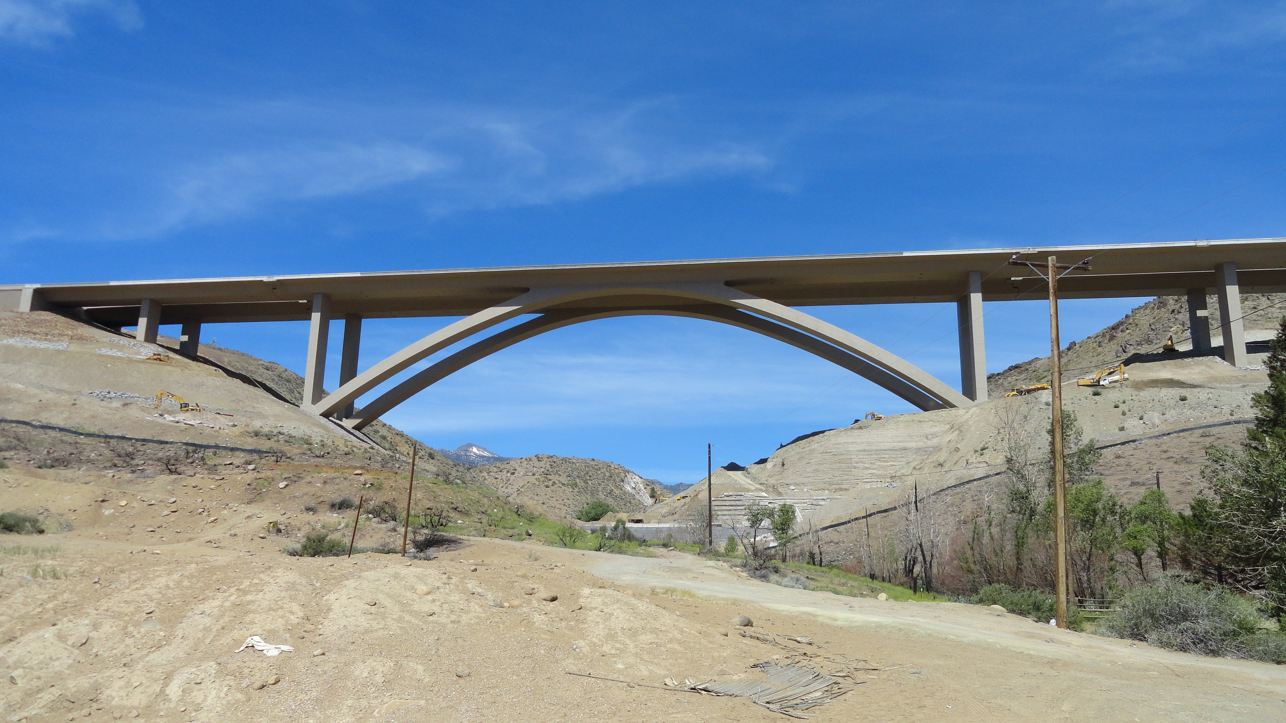 Galena Creek Bridge construction nearing completion in June 2012